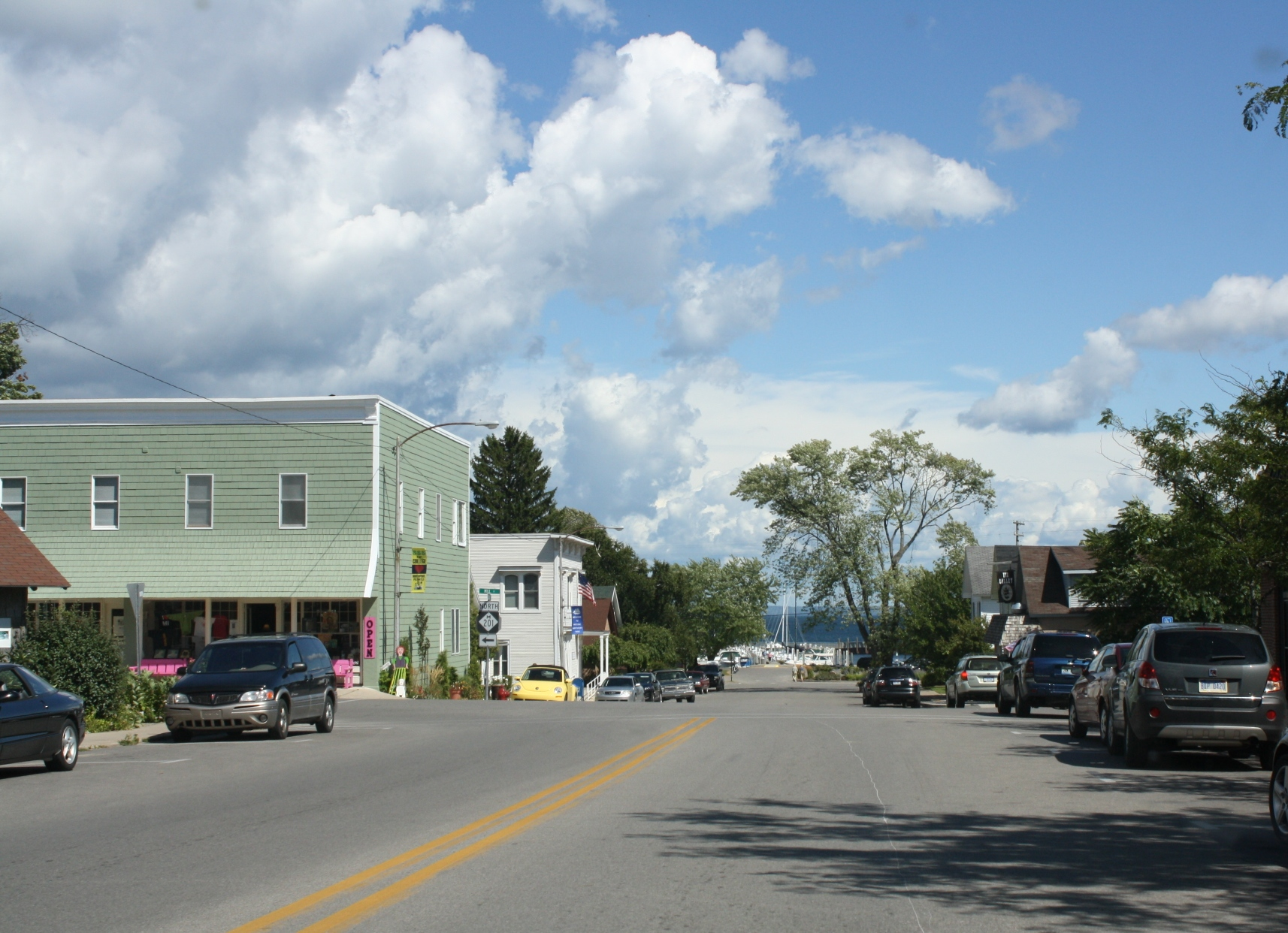 Looking east in Northport, Michigan on M-201 (Michigan highway).